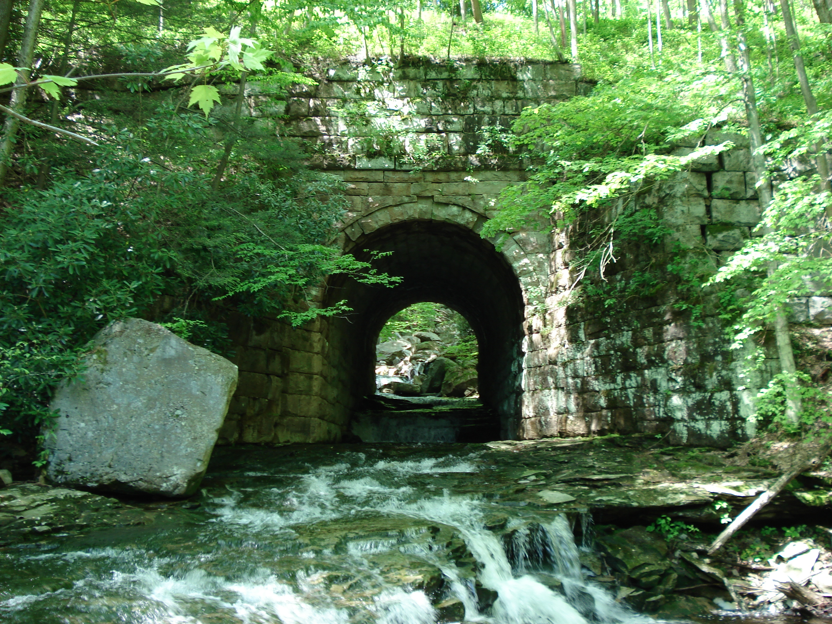 Stone culvert (1888-89) at Big Run in Blackwater Canyon, West Virginia, United States